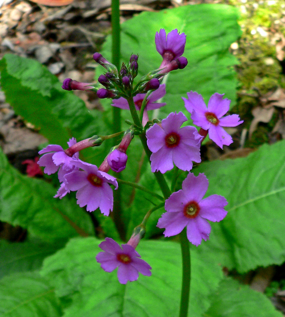 Primula japonica at the University of California Botanical Garden, Berkeley, California